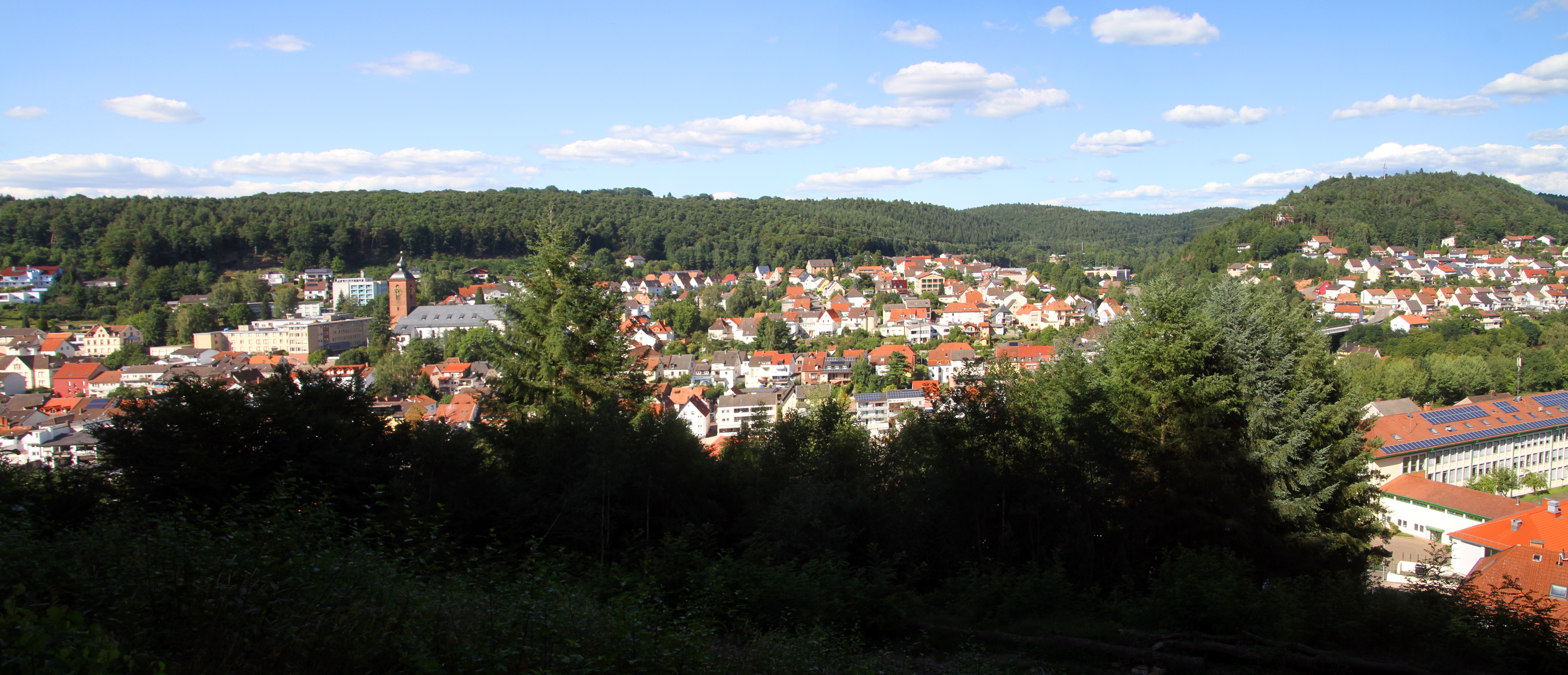 View of Rodalben